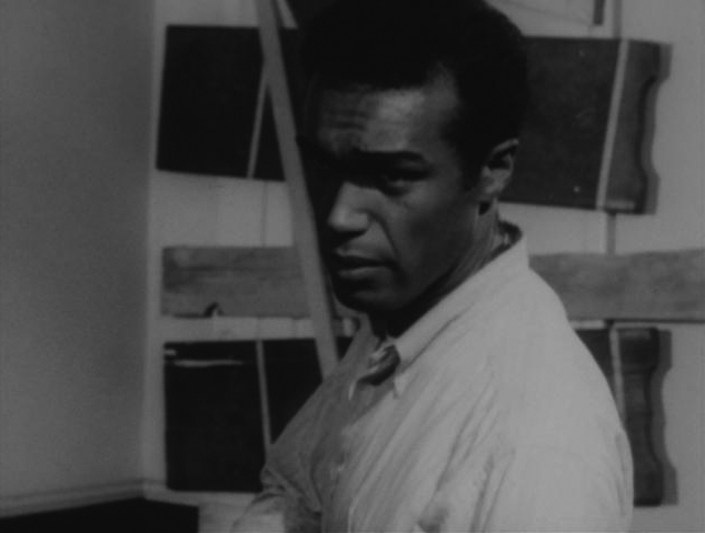 Actor Duane Jones in a scene from the movie Night of the Living Dead